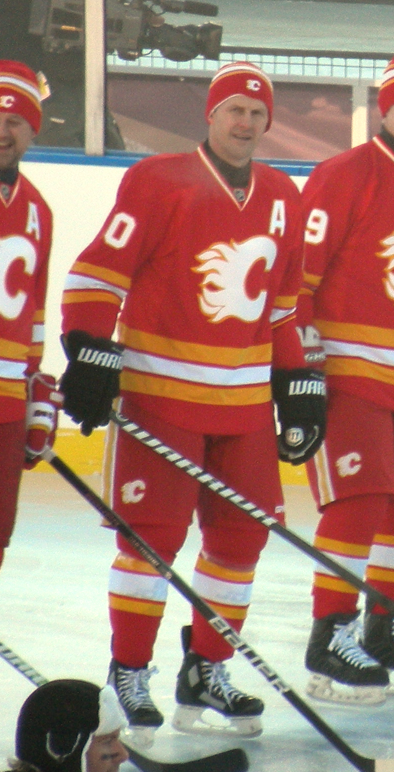 Former NHL player Gary Roberts during the alumni game at the 2011 Heritage Classic in Calgary.